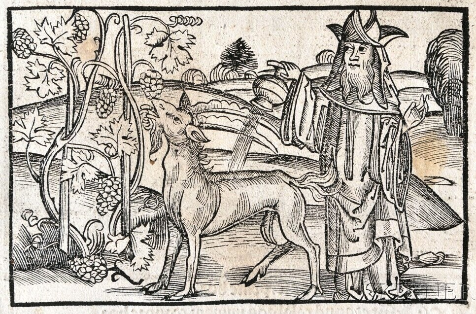 A woodcut of the fable of "The Goat and the Vine" from Sebastian Brant's Esopi Appologi sive Mythologi cum quibusdam Carminum et Fabularum additionibus (1501)